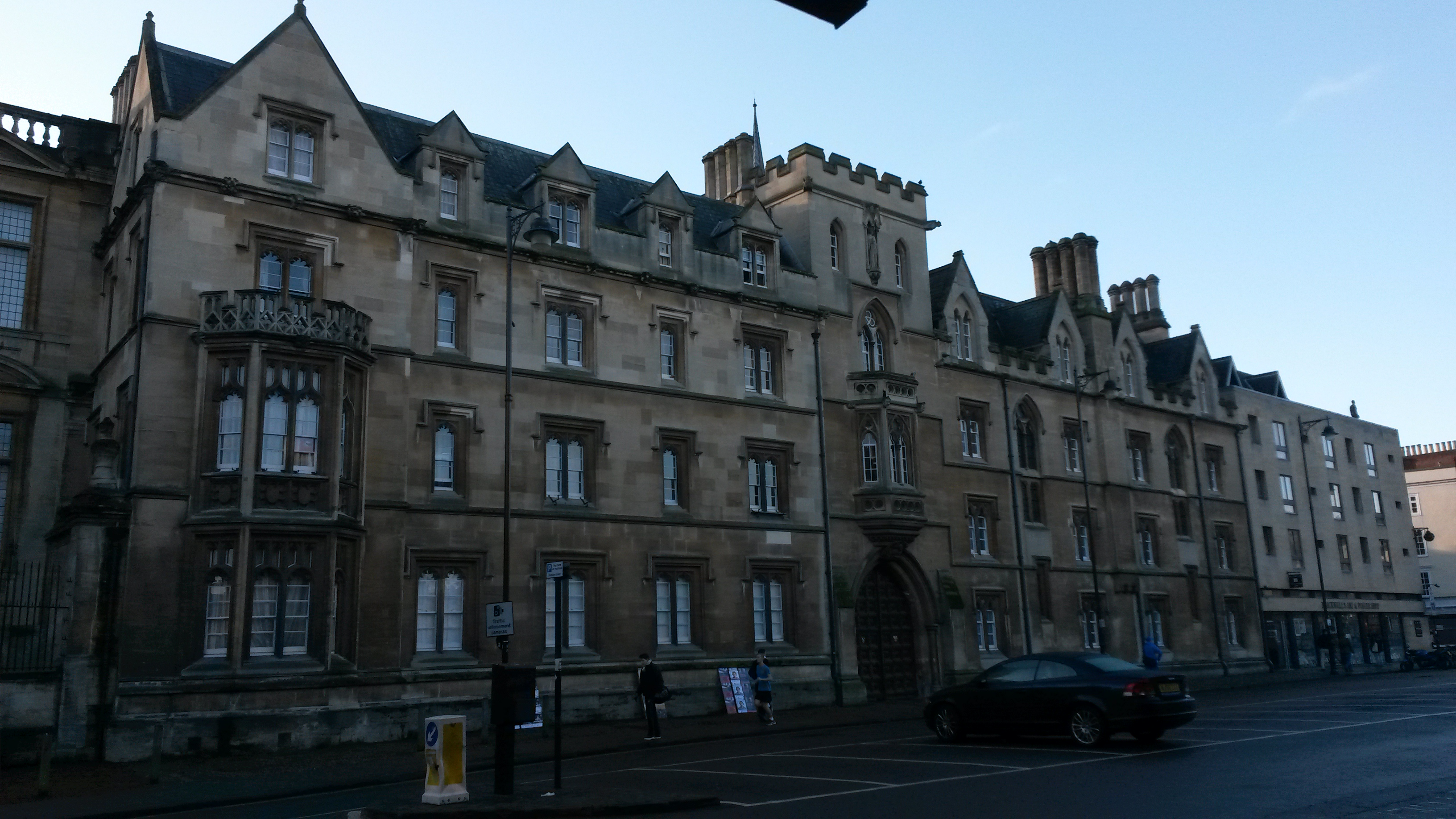 Exeter College, Oxford seen from Broad Street.